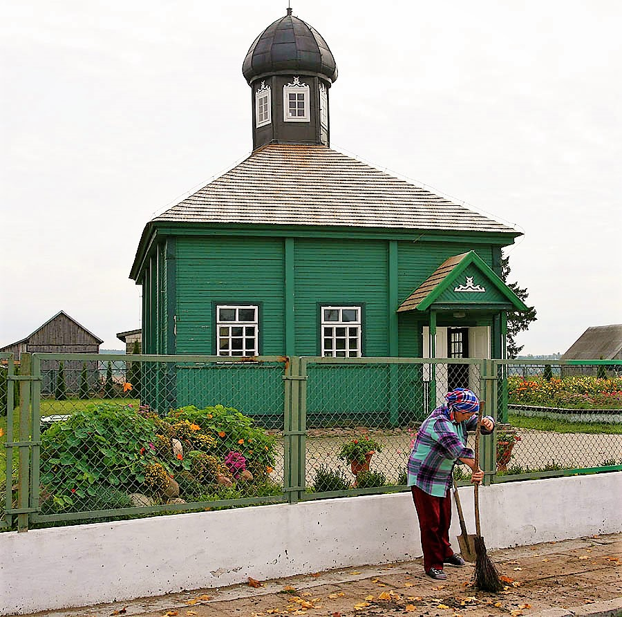 The Tatarian Mosque at the Village of Bohoniki, Poland